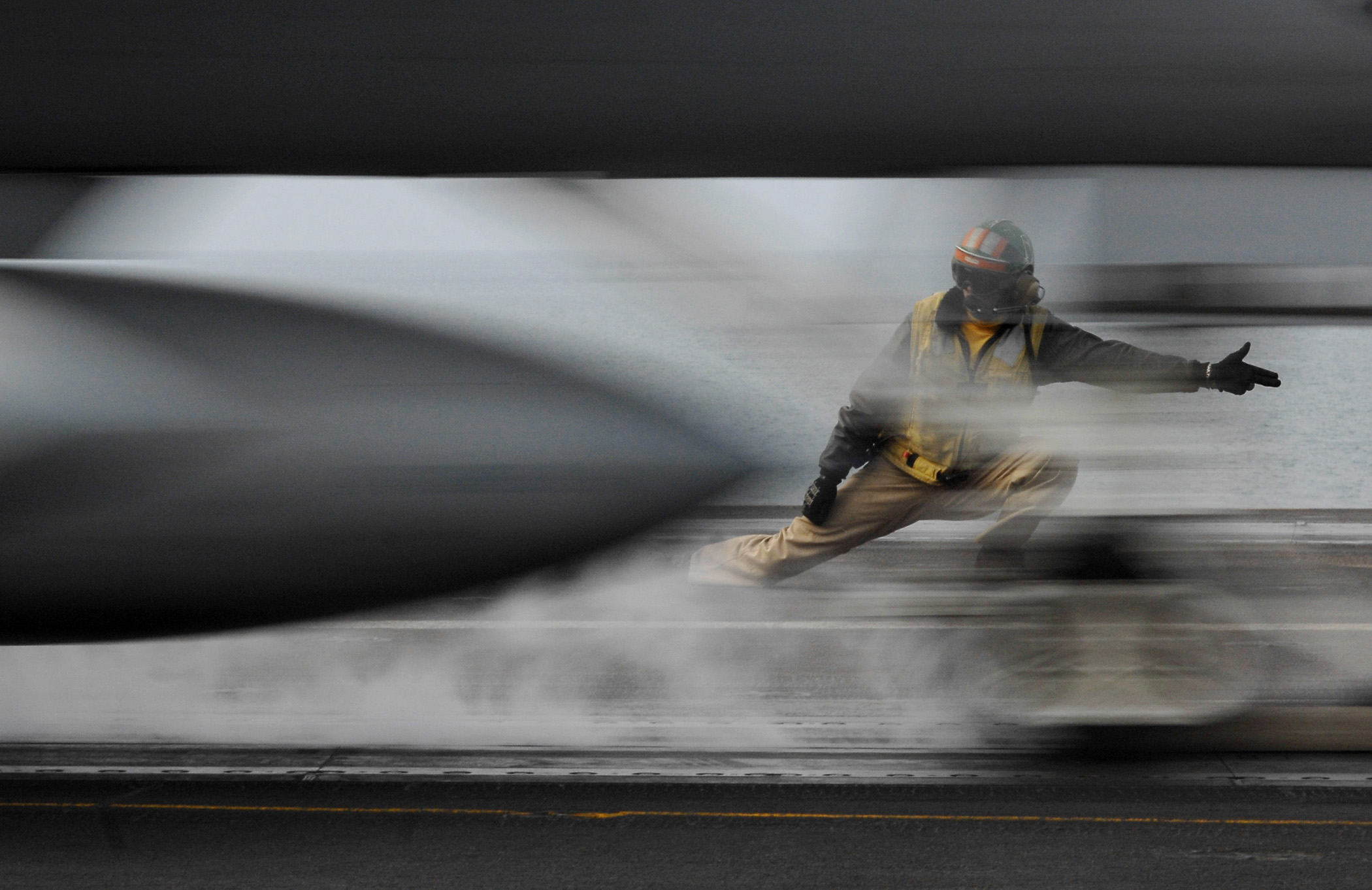 Persian Gulf (January 10, 2008) An F/A-18 Hornet launches off the flight deck as the "Shooter" LCDR Beau Massenburg gives the signal for it to launch during flight operations onboard the Nimitz-class aircraft carrier USS Harry S. Truman (CVN 75). Truman and embarked Carrier Air Wing (CVW) 3 are underway on a regularly scheduled deployment in support of Operations Iraqi Freedom, Enduring Freedom and Maritime Security Operations (MSO). MSO help set the conditions for security and stability in the maritime environment and complements the counter-terrorism and security efforts in regional nations' littoral waters. Coalition forces also conduct MSO under international maritime conventions to ensure security and safety in international waters so that commercial shipping and fishing can occur safely in the region. U.S. Navy photo by Mass Communication Specialist 3rd Class Ricardo J. Reyes. (Released by ENS David Lloyd)